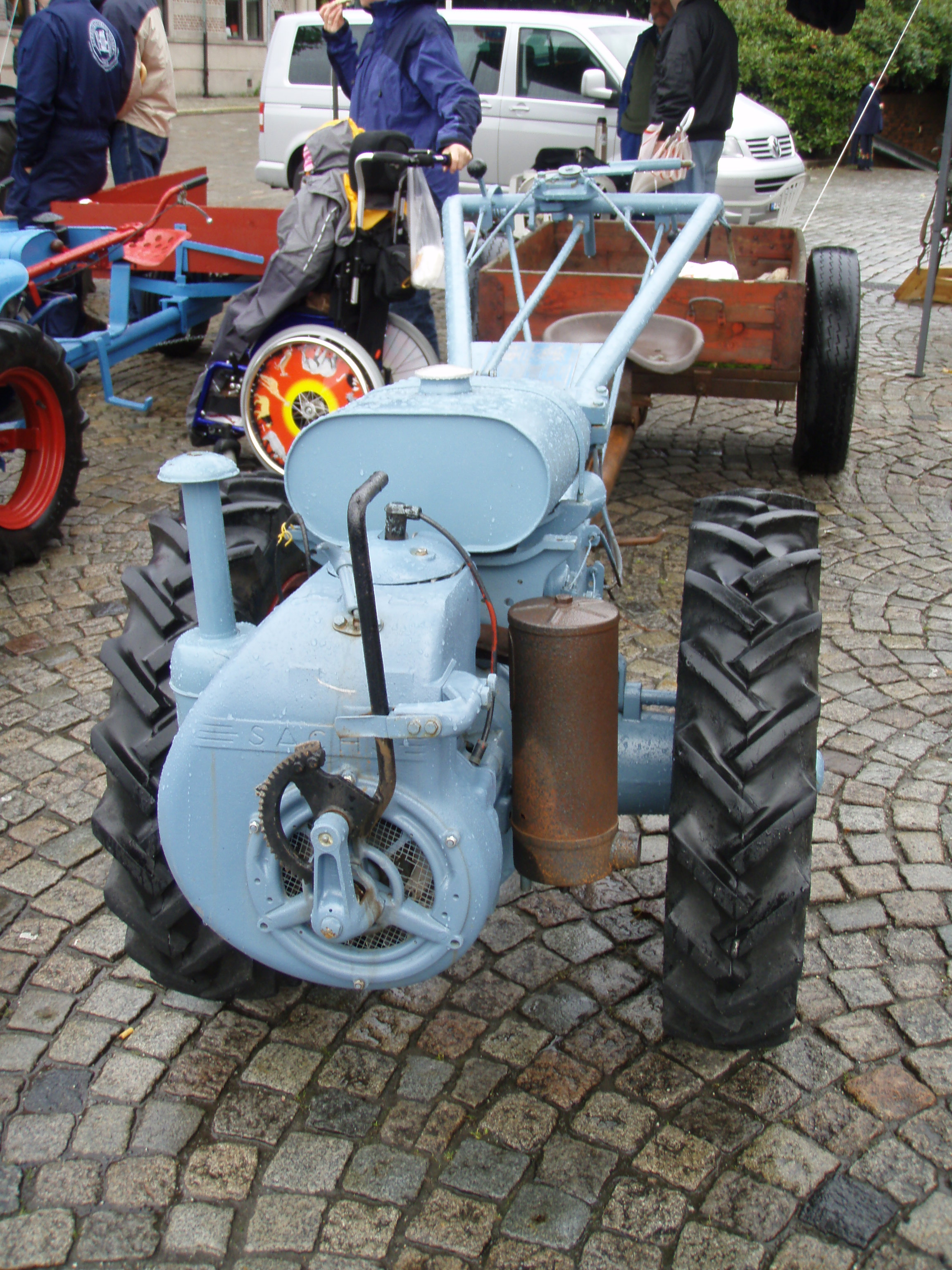 Sachs engine powered two-wheel-tractor of considerable age